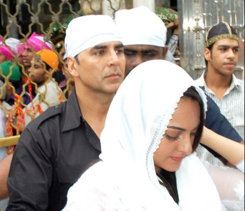 Akshay Kumar along with Sonakshi Sinha visiting the Ajmer Sharif to pray for the success of their film - Once Upon ay Time in Mumbai Dobaara!